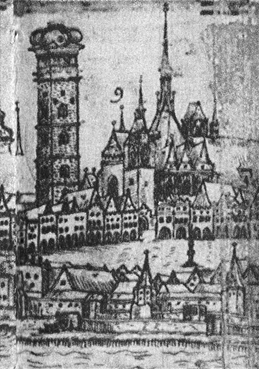 Crop of Willenberg's veduta of Ceske Budejovice